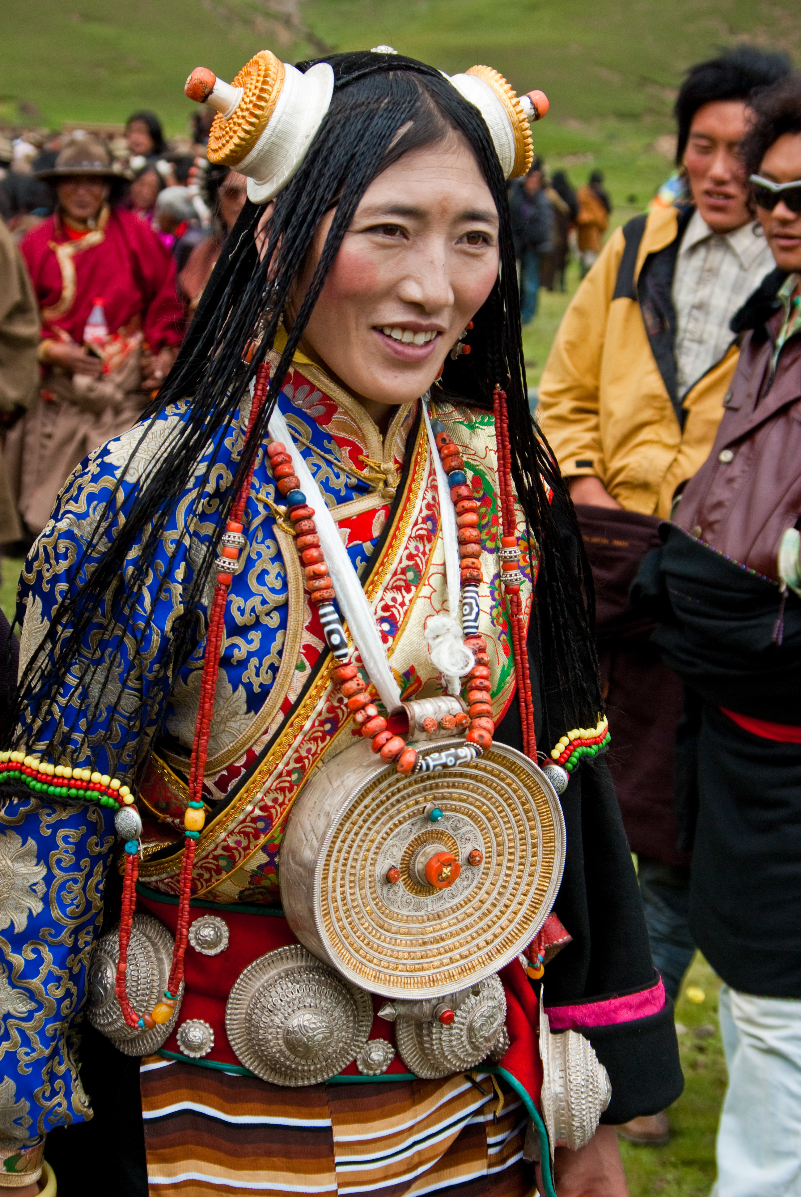 A women in the Kham